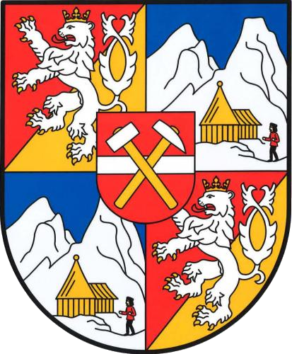 Coat of Arms of Jáchymov, Karlovy Vary District, Czech Republic.